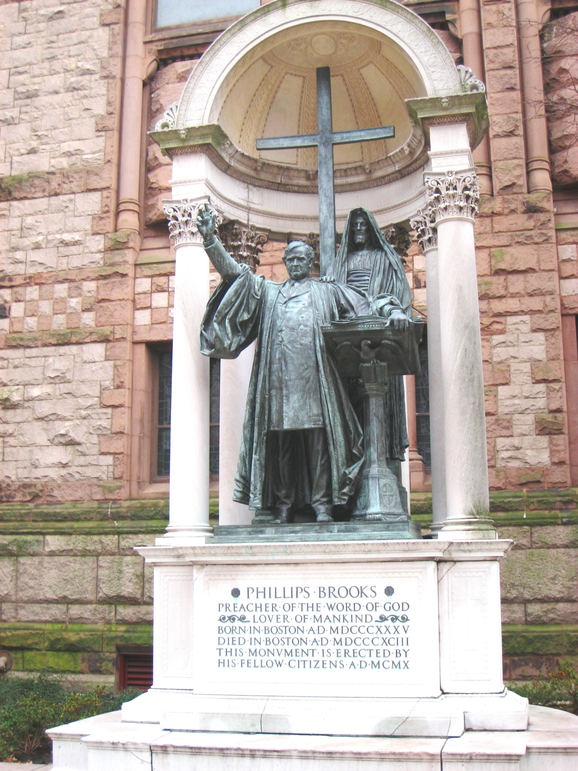 Statue of Phillips Brooks by Augustus Saint-Gaudens (1848-1907), Trinity Church, Boston, Massachusetts, USA. Copyright (if any) has expired on this work of art, as the author died more than 70 years ago.